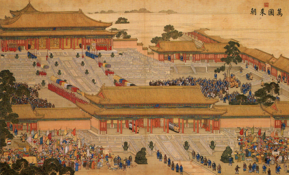 Court audience given by Emperor Qianlong, Forbidden City, Hall of Supreme Harmony.